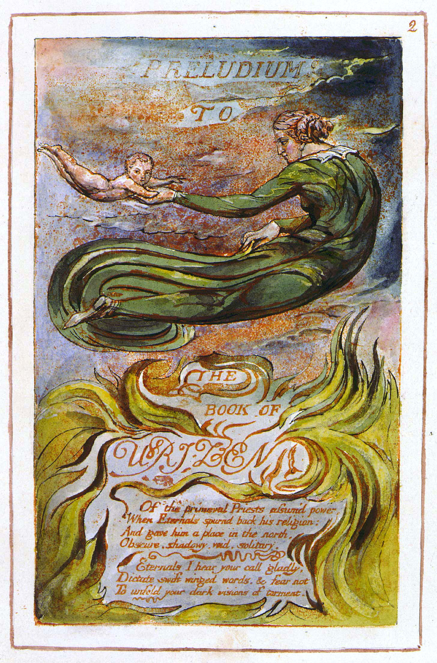 The Book of Urizen copy G object 2 copy G, c. 1818 (Library of Congress): electronic edition object 2 (Bentley 2, Erdman 2, Keynes 2)